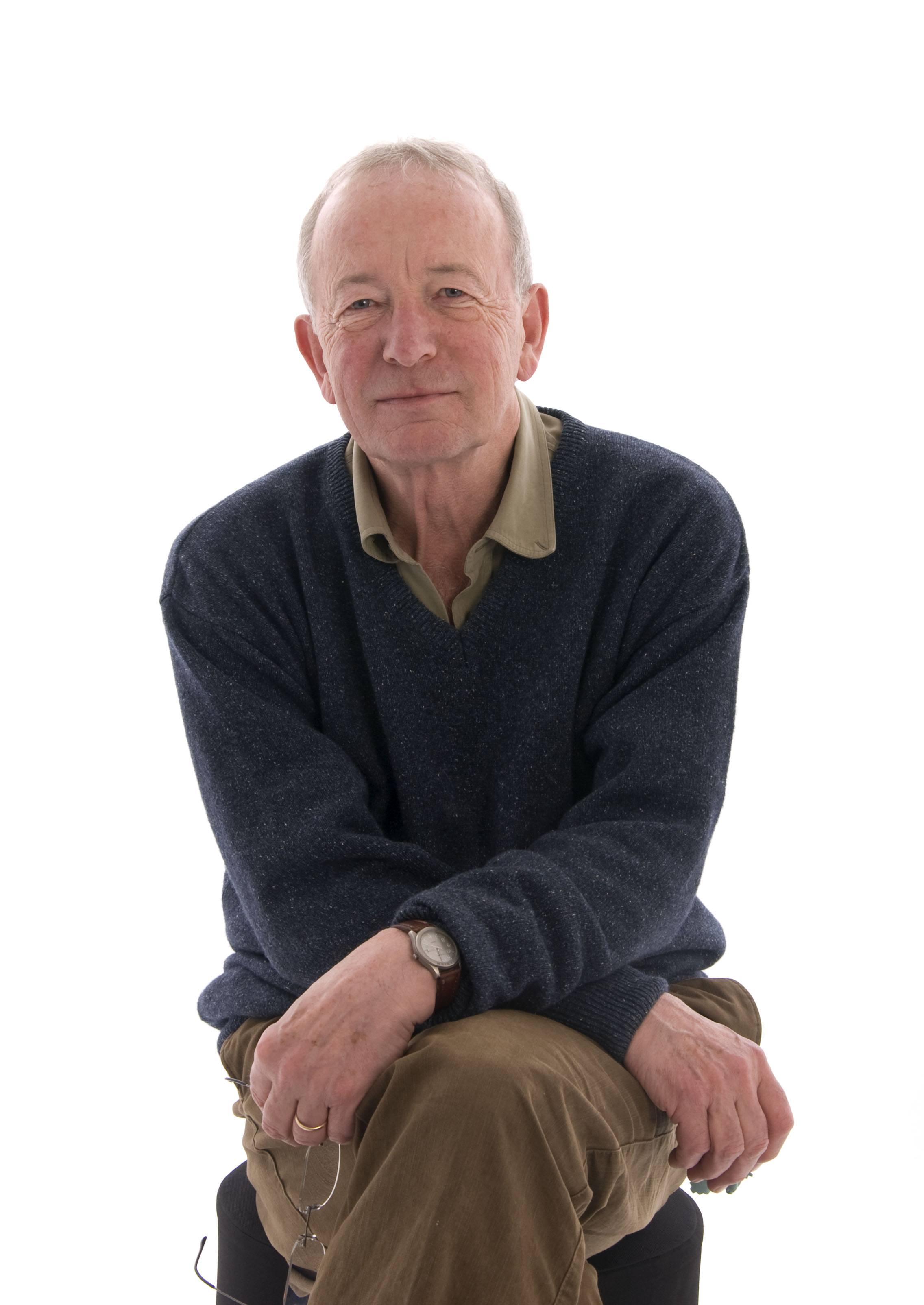 Photograph of Nicholas Humphrey taken by me at his Cambridge home